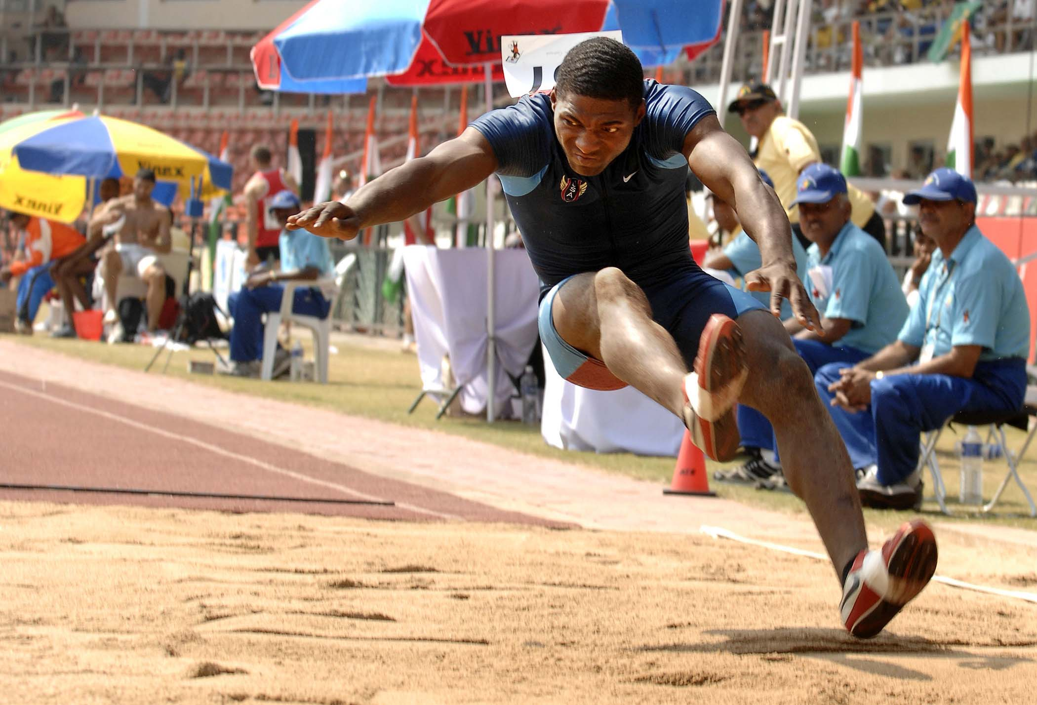 U.S. Army Pfc. Francois Gatson takes a look at the distance measuring board as he prepares to land after a leap in the air during the long jump event in the Conseil Internationale du Sport Militaire\'s (CISM) Military World Games in Hyderabad, India, Oct. 17, 2007. The CISM Military World Games is the largest international military Olympic-style event in the world. (U.S. Navy photo by Mass Communication Specialist 2nd Class Marcos T. Hernandez)